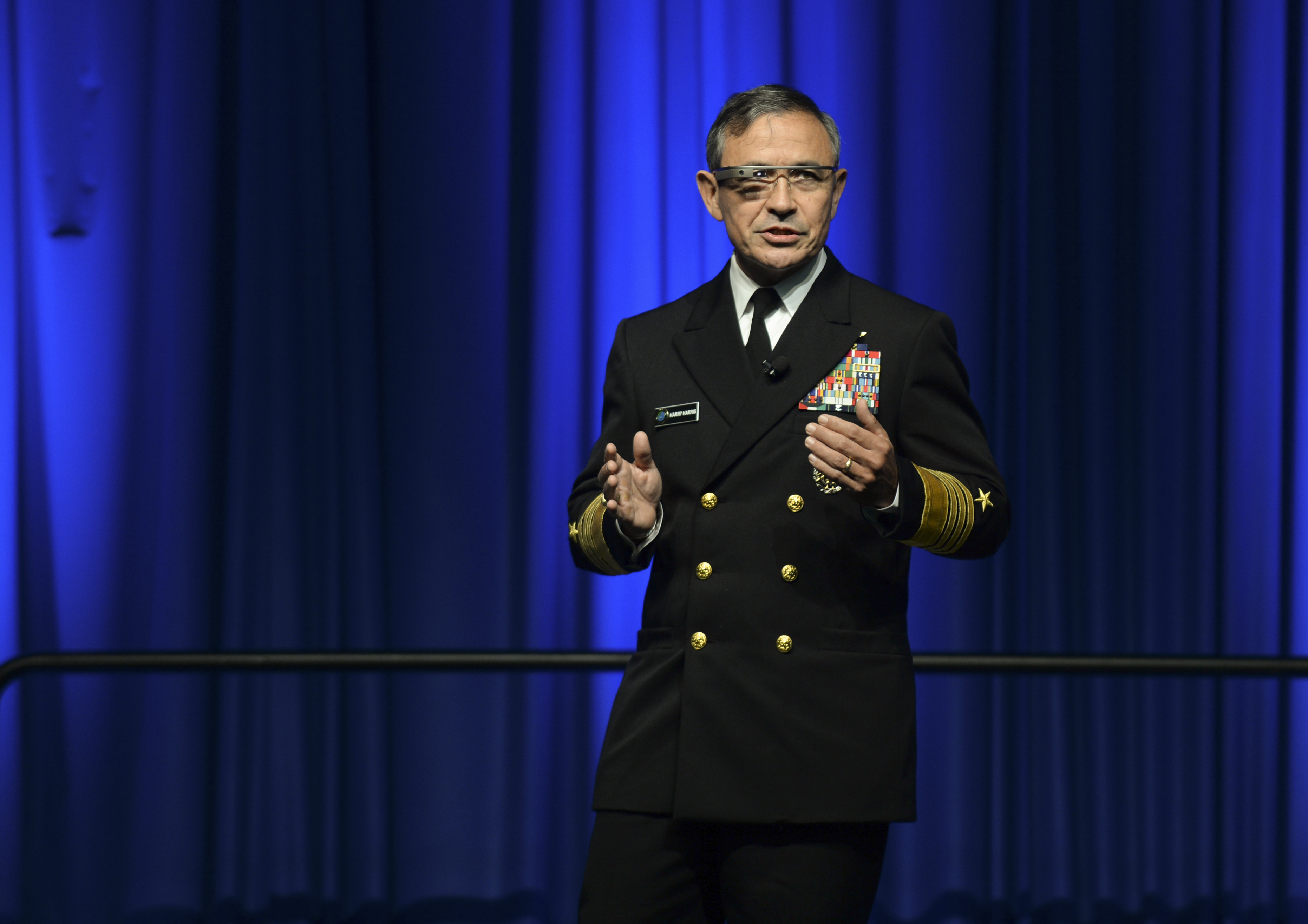 SAN DIEGO (Feb. 11, 2014) Adm. Harry B. Harris Jr., commander of U.S. Pacific Fleet, wears Google Glass while speaking at an Armed Forces Communications and Electronics Association (AFCEA) and U.S. Naval Institute sponsored luncheon where he was featured as the keynote speaker. AFCEA and the U.S. Naval Institute are hosting the Western Conference and Exposition in San Diego, Feb. 11-13. The conference brings together military, government and defense industry leaders to discuss maritime strategy for the future. (U.S. Navy photo by Mass Communication Specialist Seaman Huey D. Younger, Jr./Released)